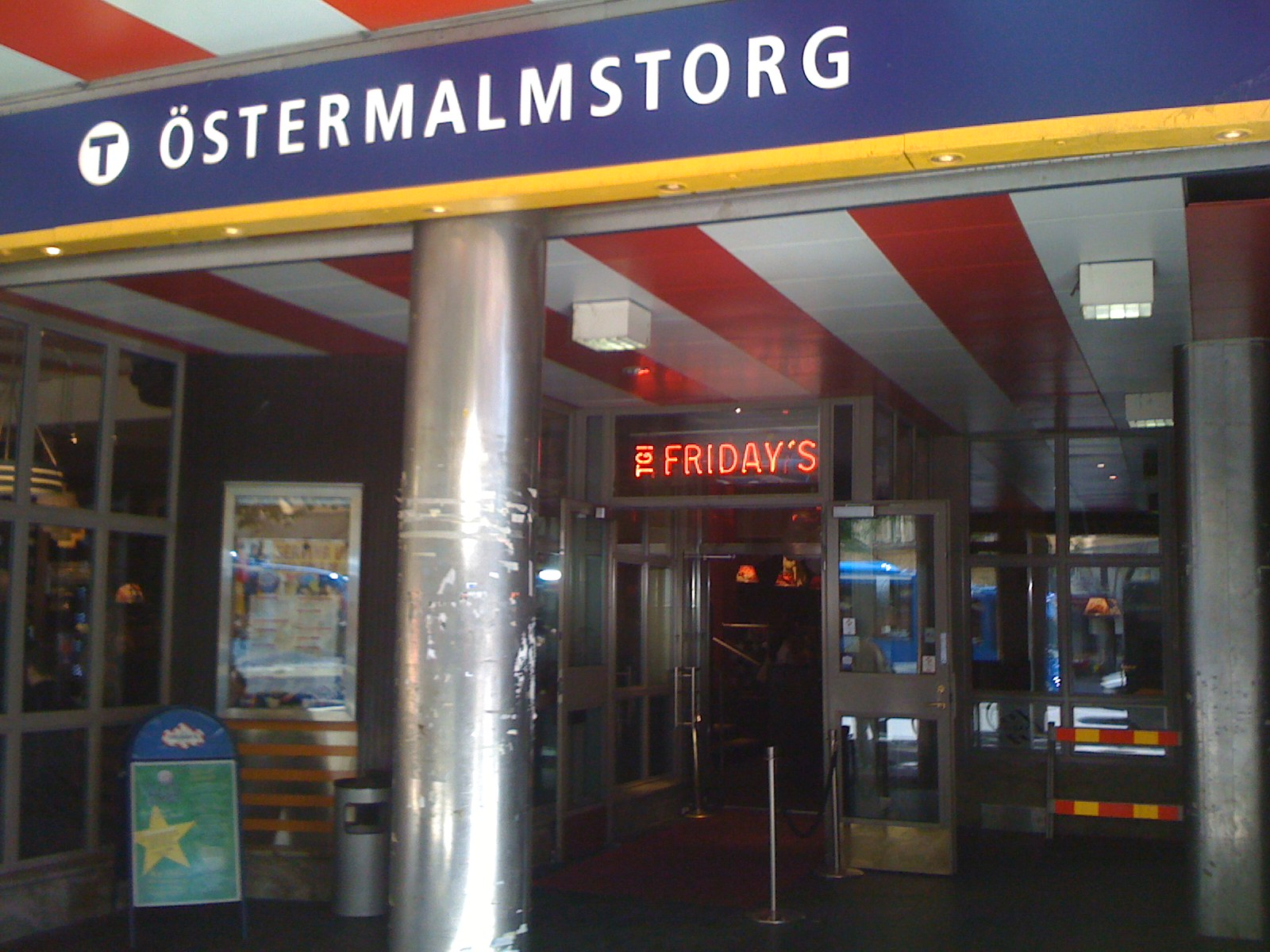 One of the entrances of the metro station Östermalmstorg, located in Stockholm.